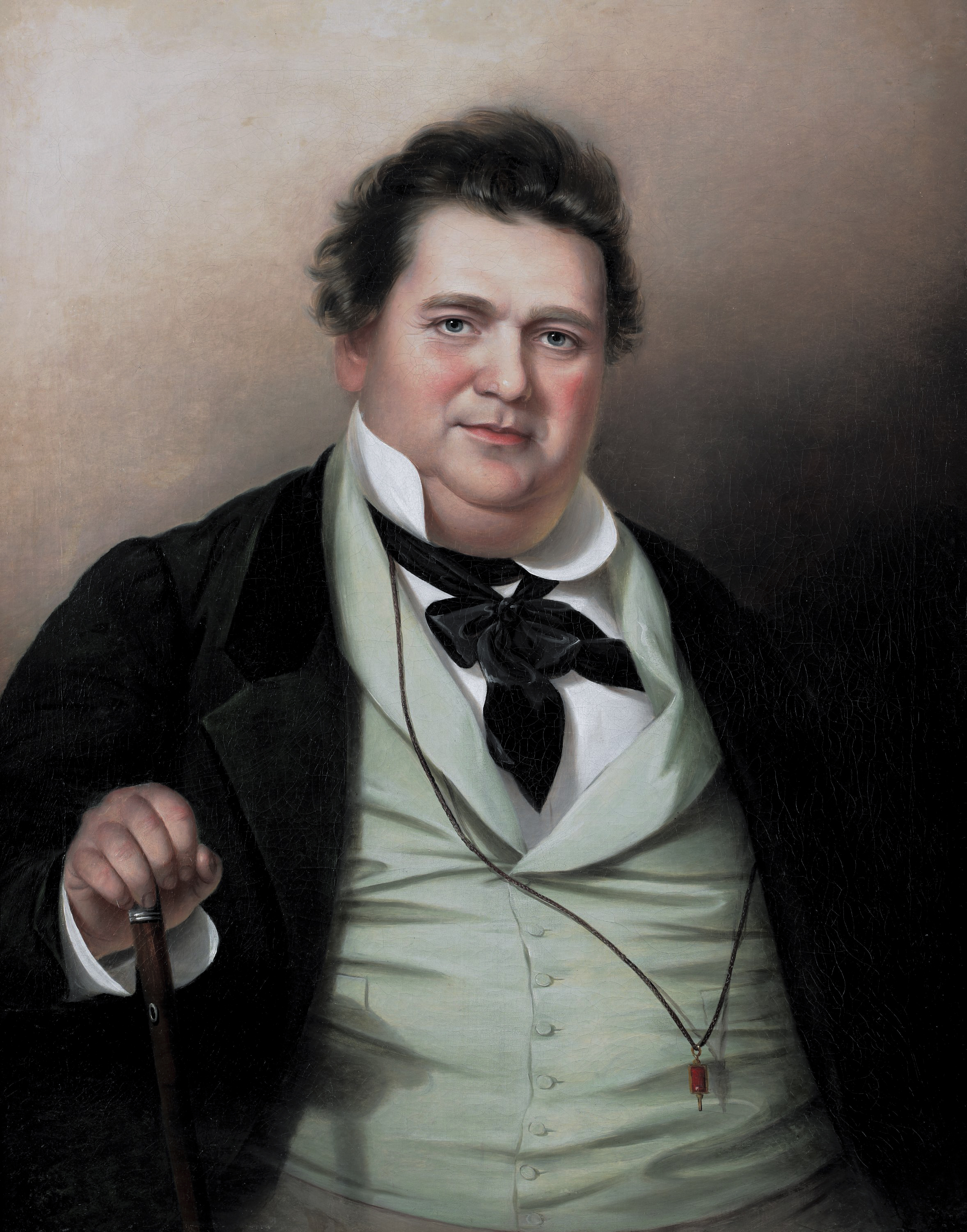 The Honorable Dixon Hall Lewis (1802-1848) oil on canvas about 1841-1843